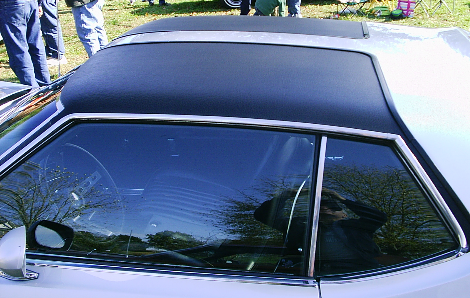 Detail of the "twin canopy" vinyl roof cover on the 1971 Javelin SST coupe, built by American Motors Corporation (AMC), a pony car equipped with AMC's 360 CID (5.9 L) V8 engine, in factory original condition.